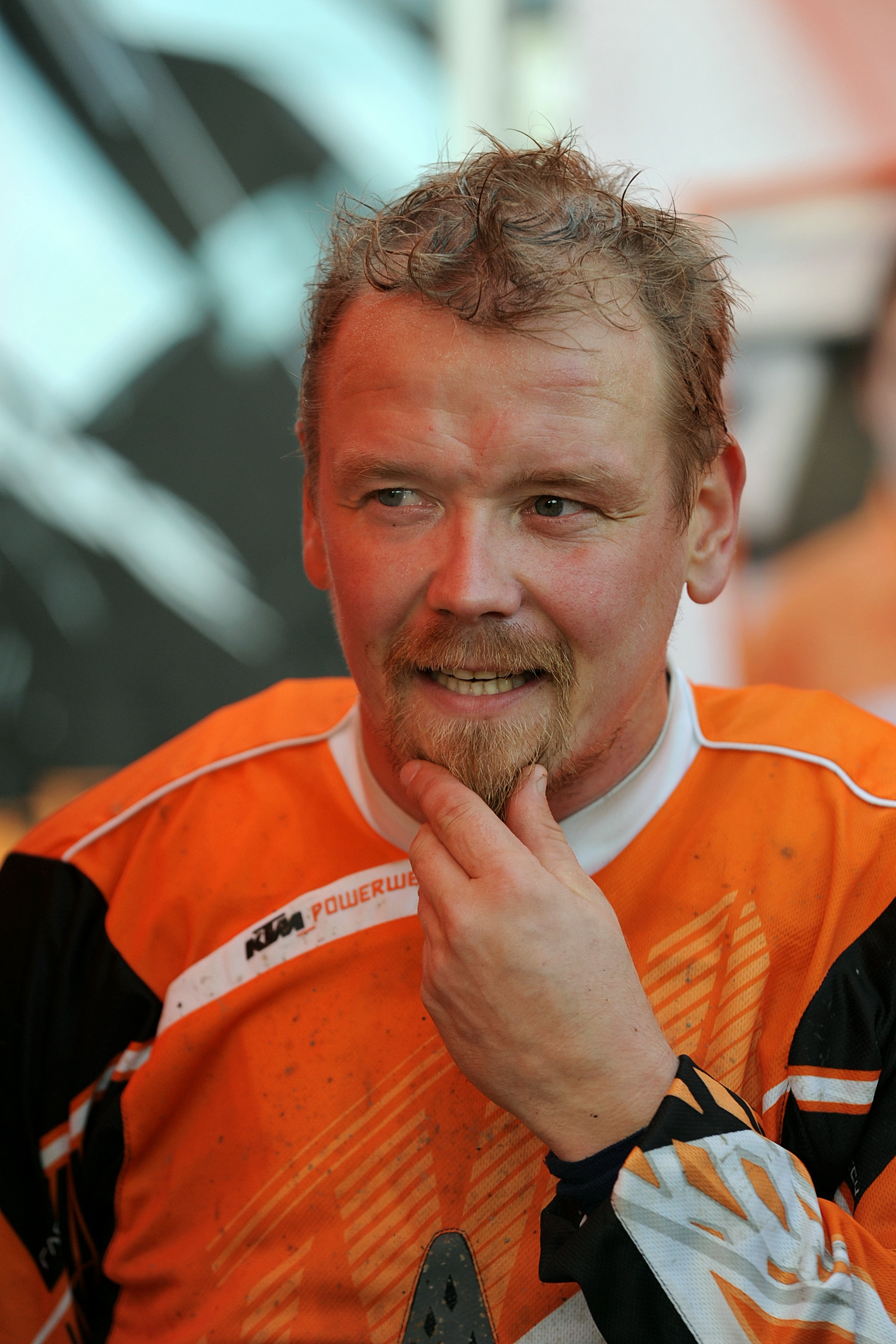 Finnish enduro rider Samuli Aro at the final round of Finnish championship series 2010.